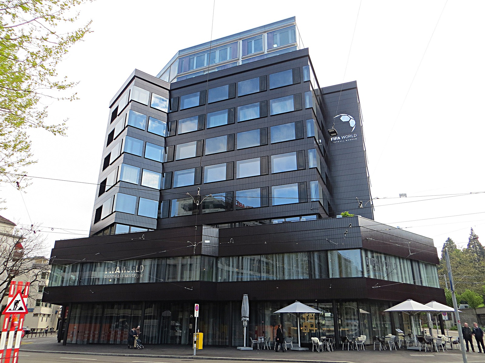 FIFA World Football Museum